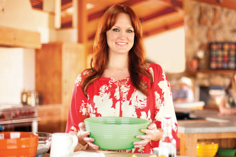 Photo of the Pioneer Women.